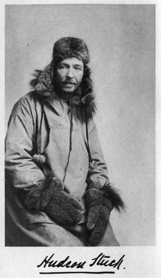 Hudson Stuck